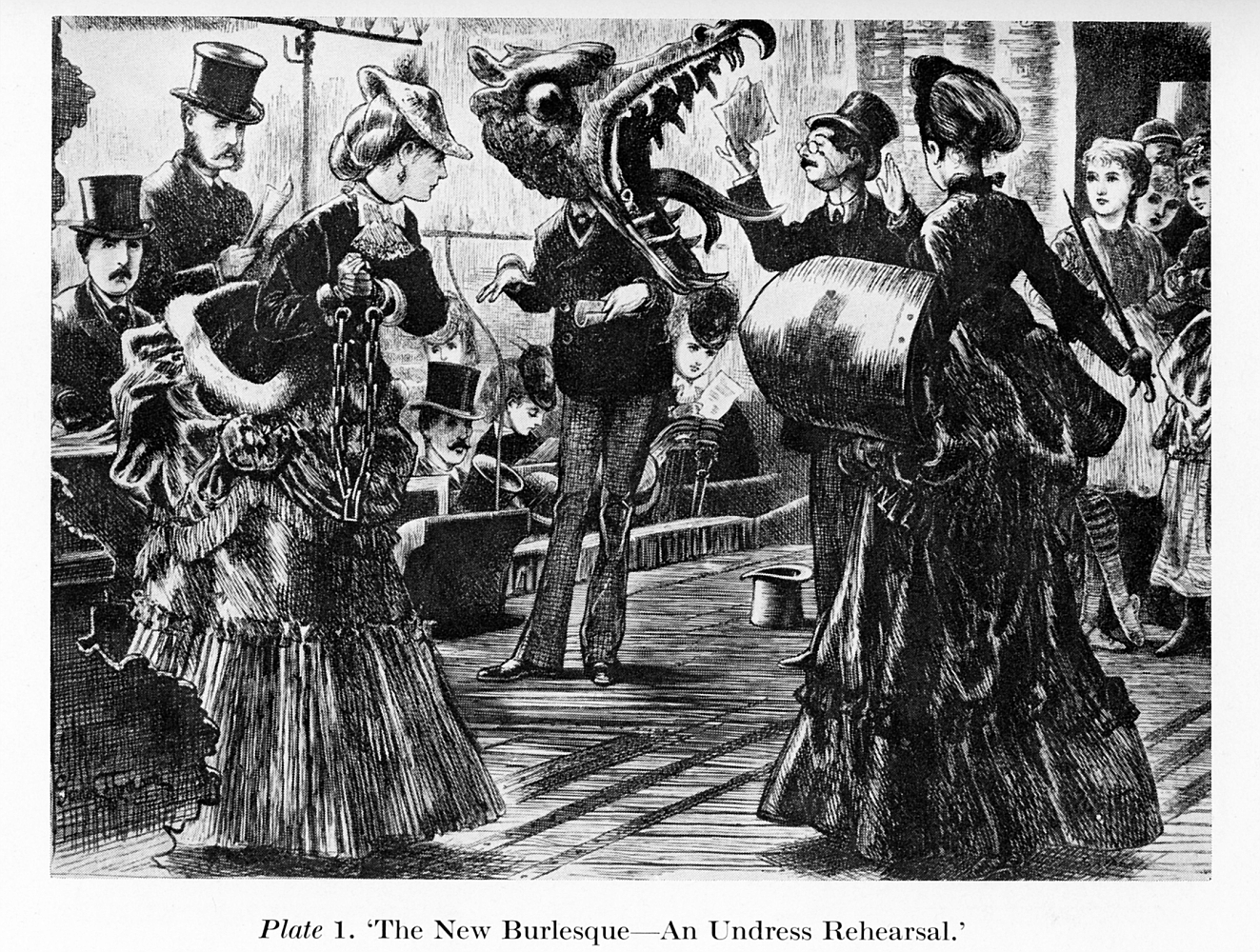 The New Burlesque - An Undress Rehearsal from the a late 1871 edition of The Graphic. Identified as Thespis in John Hollingshead's Gaiety Chronicles